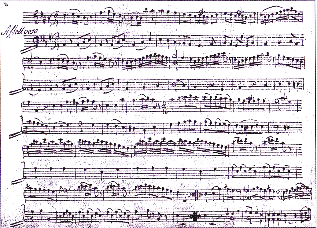 Luigi Boccherini (1743–1805), Sonata in A, G.4 (III. Affettuoso), Manuscript.